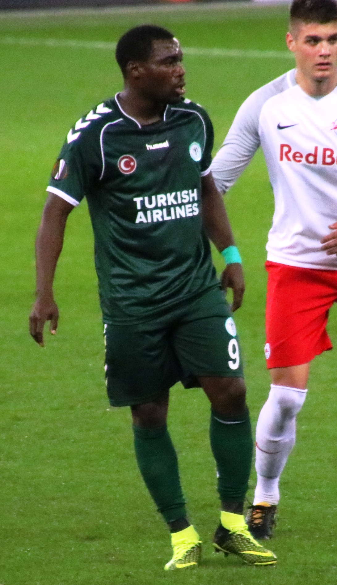 UEFA Euro League Group I 4th round